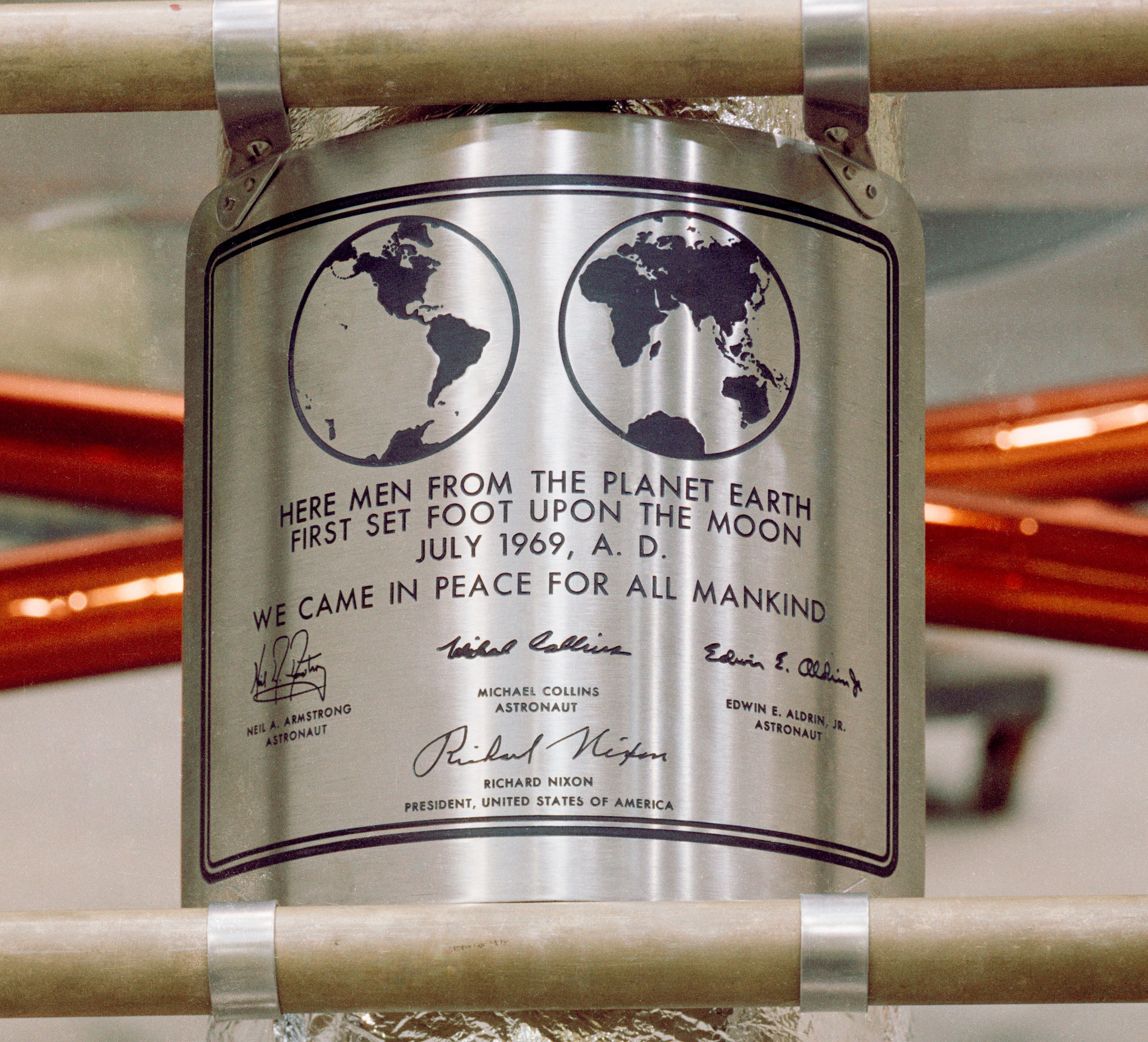 Apollo 11 plaque